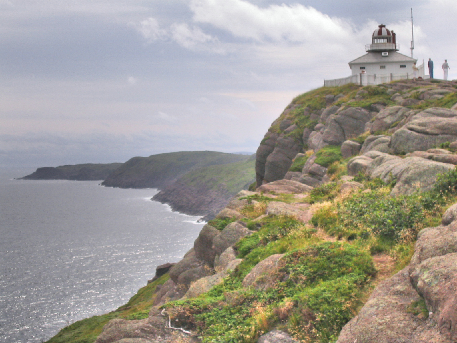 Cape Spear, Newfoundland